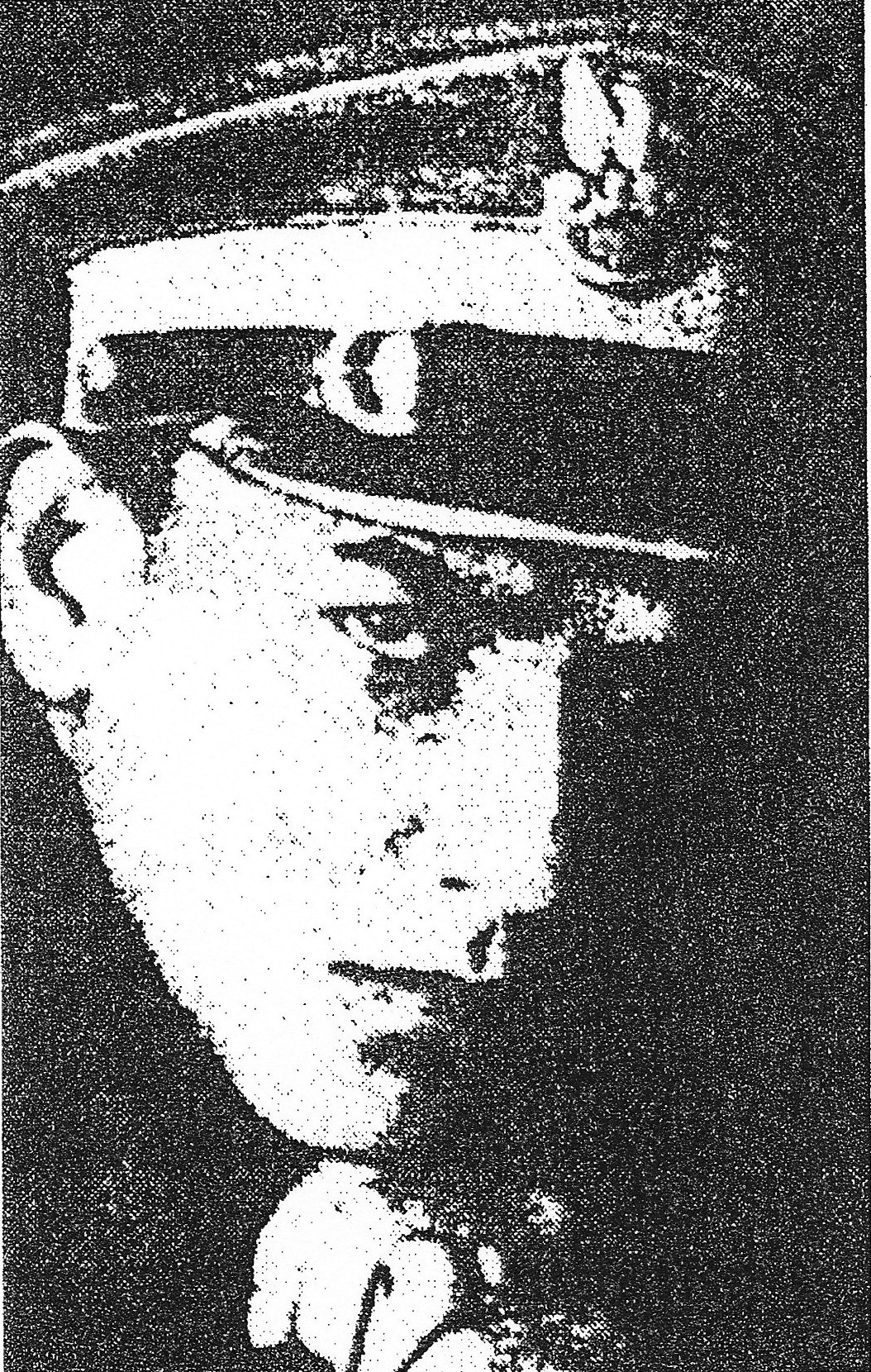 Henryk Steinman (1900-1924), Polish soldier and poet